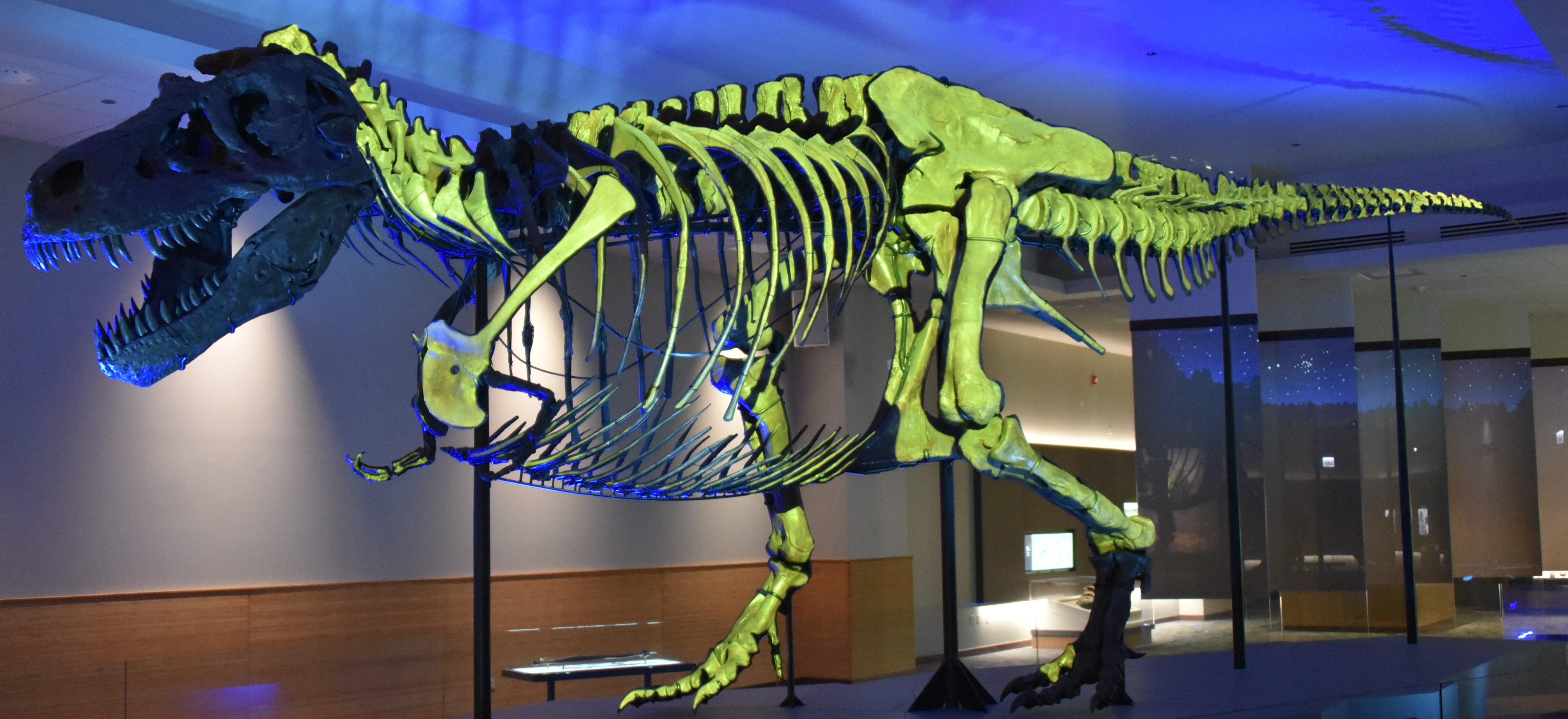 SUE the Tyrannosaurus rex mounted at the Field Museum in Chicago, IL. Bones highlighted green are the real fossils as mounted. SUE's real skull is not mounted and displayed separately.